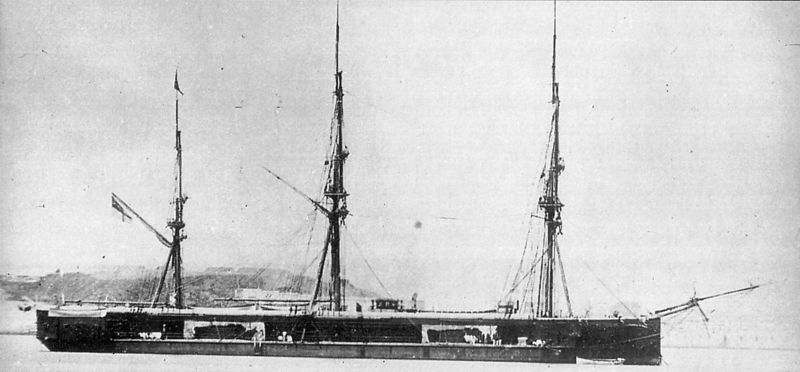 HMS Captain, launched 1869. Photo must be taken in 1870 - as the ship sank the same year.